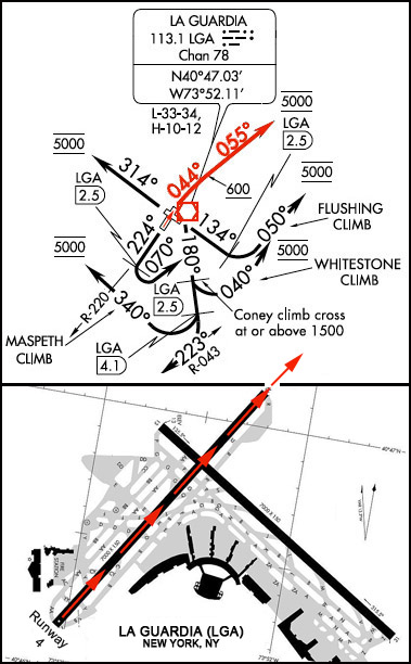 Composite image for Runway 4 departure from LaGuardia Airport, New York.